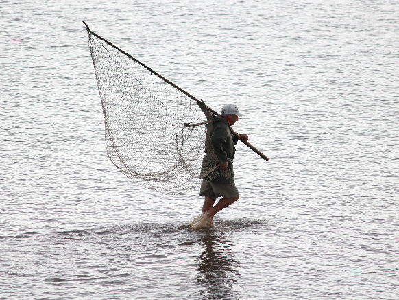 Fisherman carrying a lave net on the River Severn near Lydney